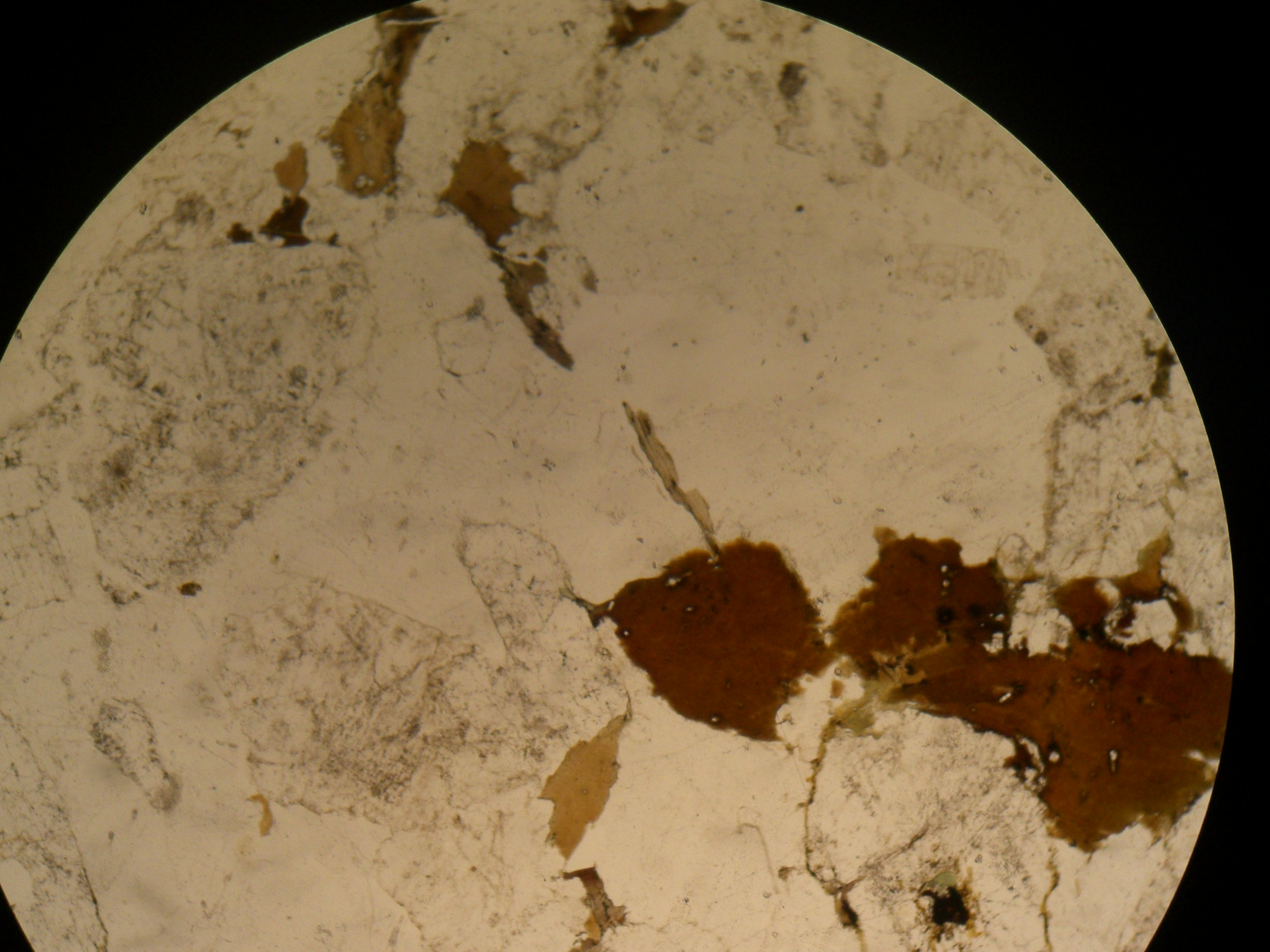 Granodiorie under microscope with 1 nikol. (It is possible see granules of biotite and K-feldspar.)